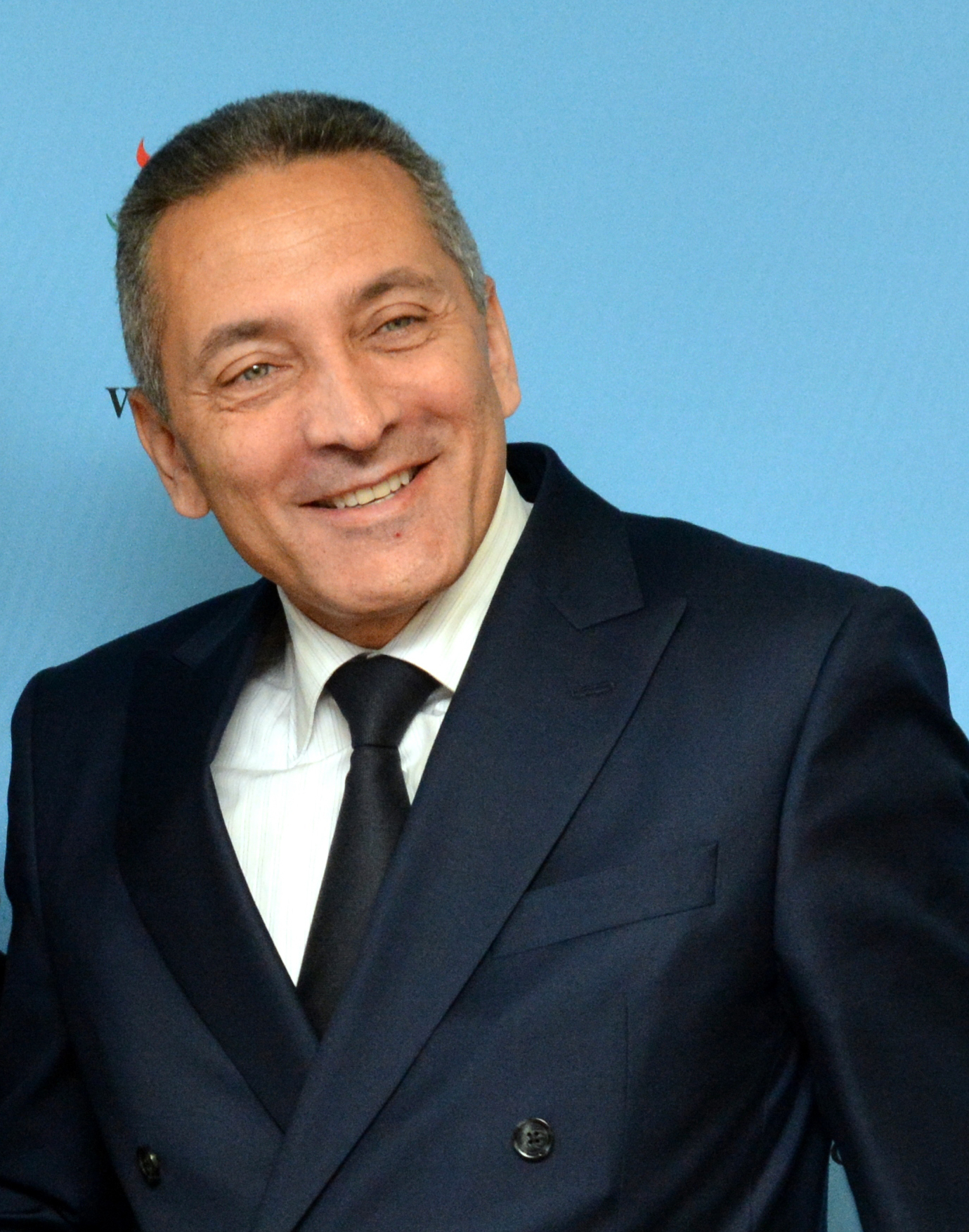 Morocco’s Minister of Trade Moulay Hafid Elalamy in a meeting with the Director-General of the World Trade Organization Roberto Azevêdo.